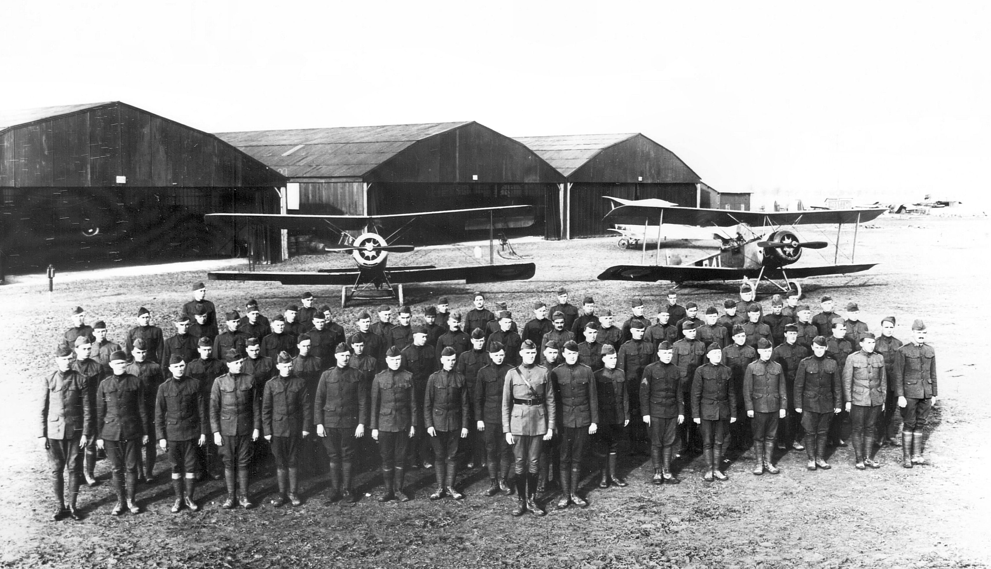 Men of the 99th Aero Squadron with their Sopwith 1½ Strutters at Parois Airdrome, France, November 1918